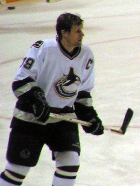 Markus Näslund while warmup in San Jose